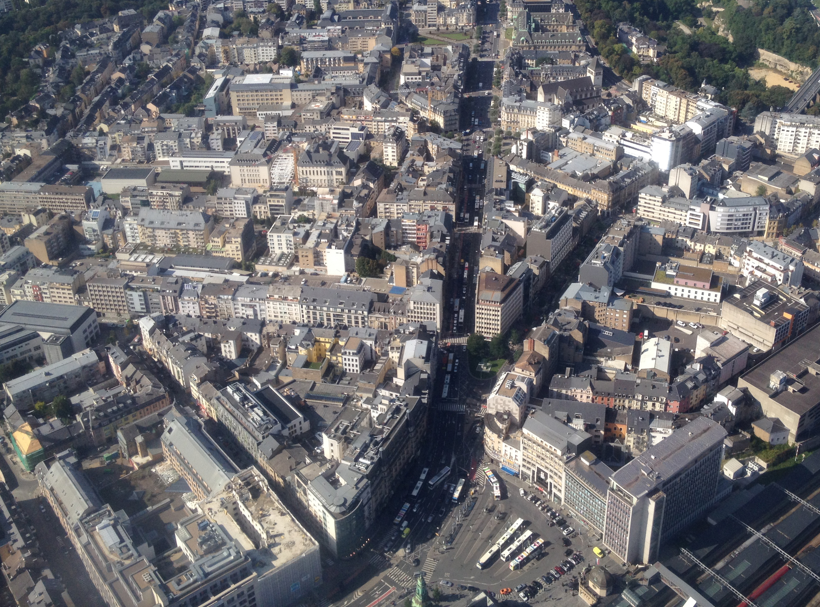 Aerial view of the neighbourhood around the main train station (Garer Quartier) in Luxembourg City in September 2014.